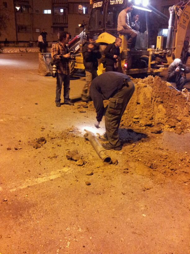 a rocket fired from Gaza hit the city of Netivot. The rocket exploded in one of the neighborhoods in the city, injuring one civilian. Photo by The Israel Defense Forces Spokesperson unit.